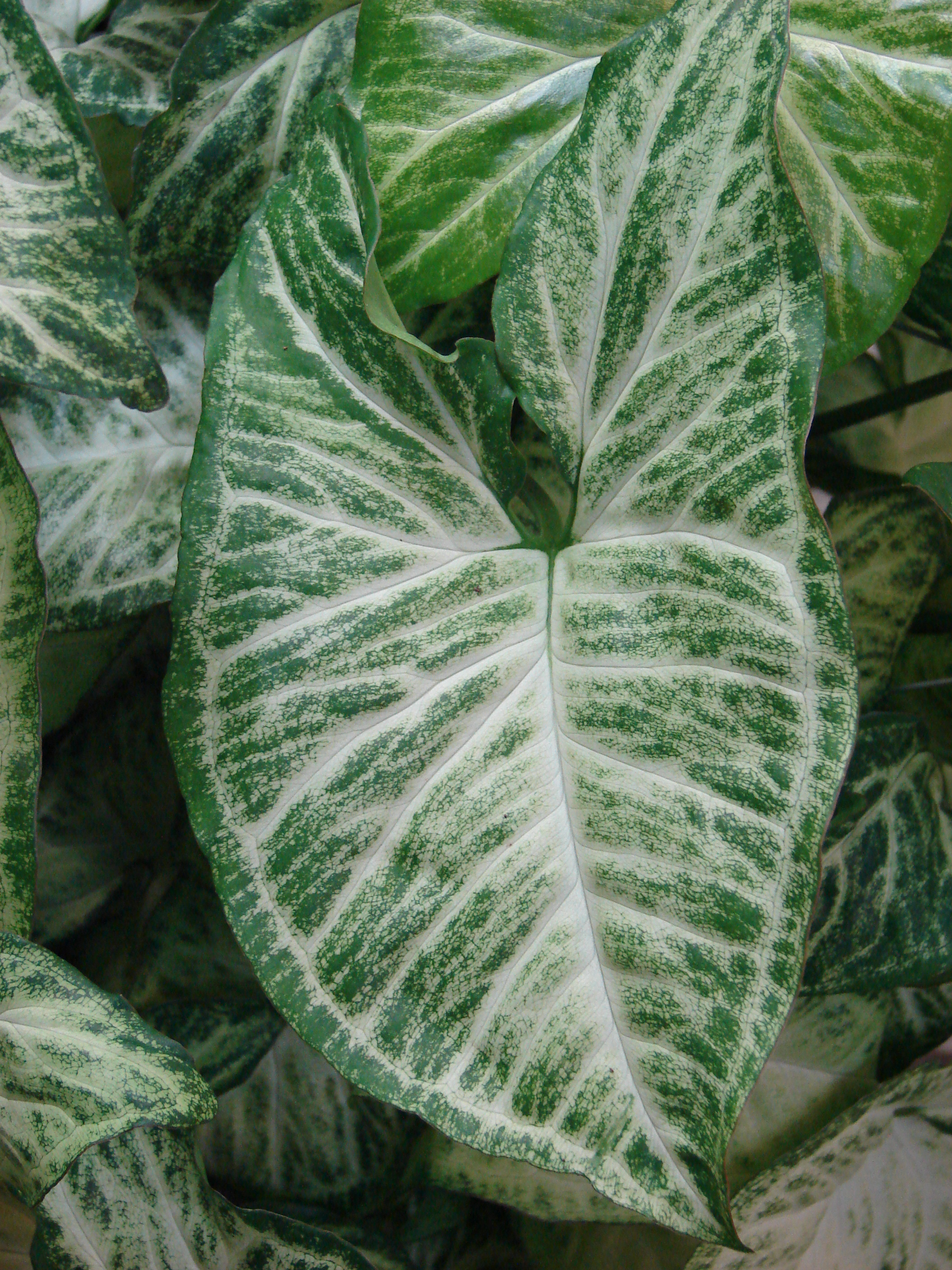 Caladium bicolor (leaf). Location: Maui, Kula Ace Hardware and NurseryComment: Leaf blade with a distinct marginal vein and indistinct, numerous primary veins suggests it is rather Syngonium podophyllum cultivar 'Albolineatum'